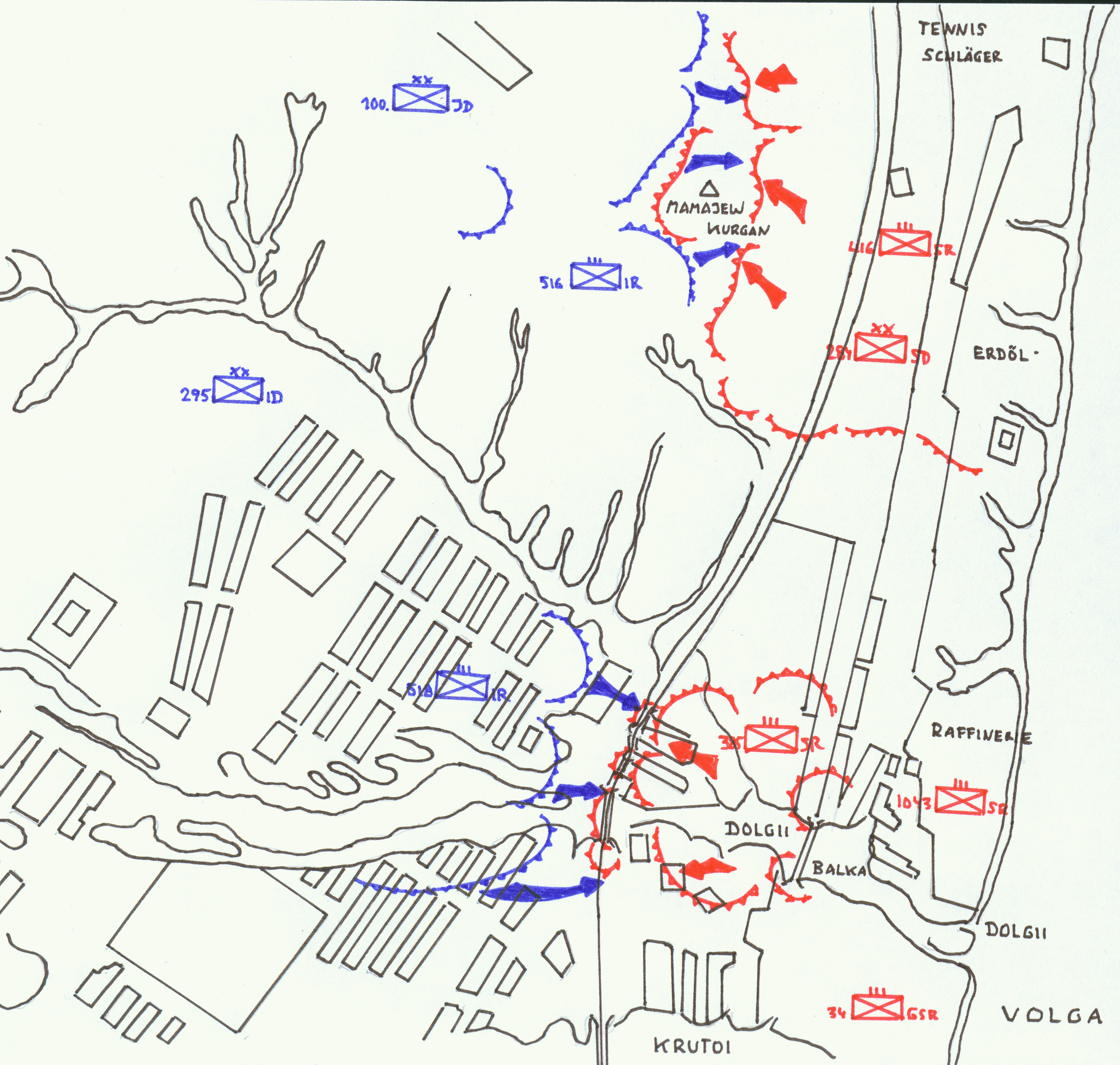 sketch drawn-out according to Glantz